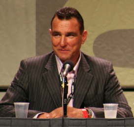 Vinnie Jones at Comic-Con promoting The Midnight Meat Train